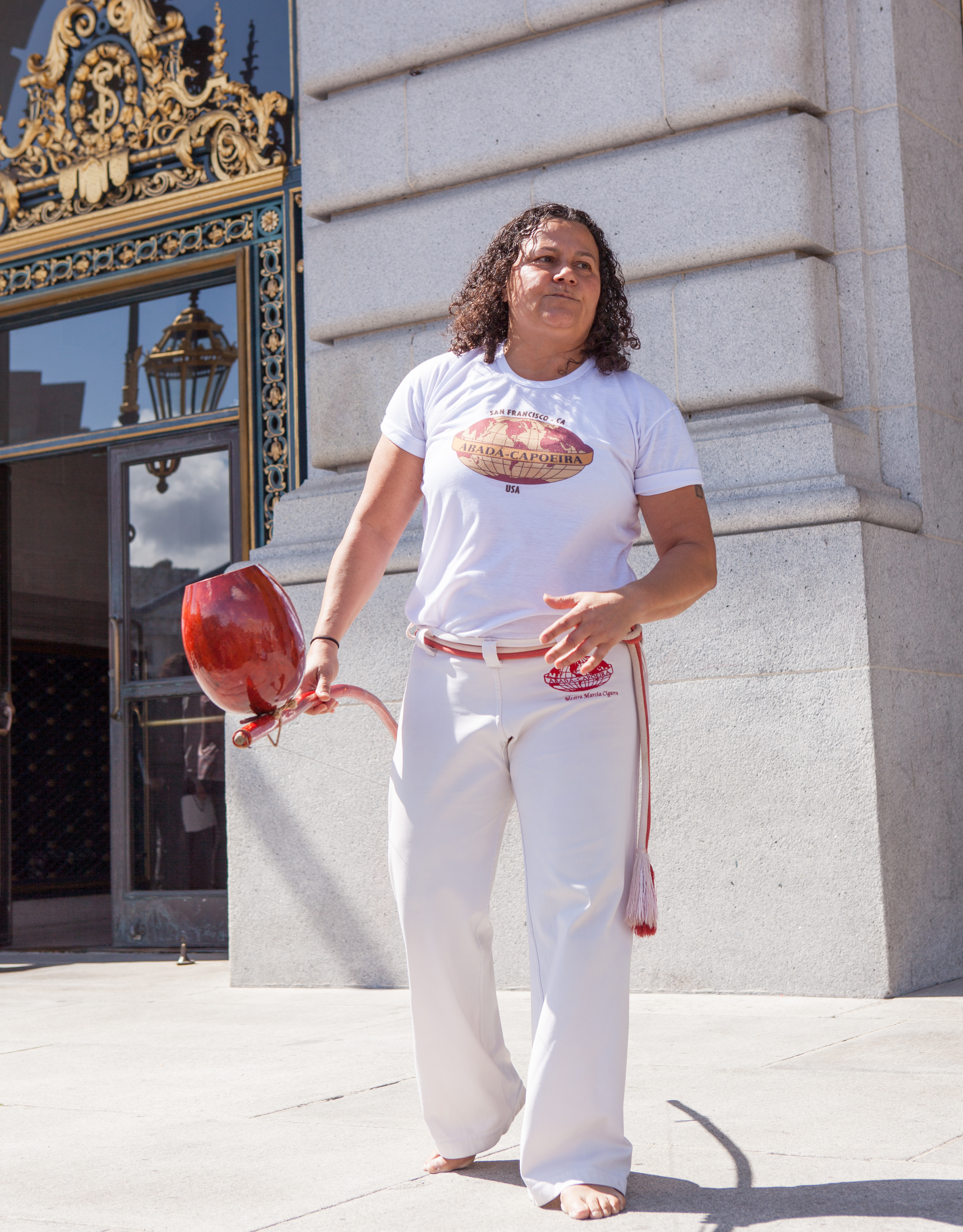 Márcia Treidler, Mestra Márcia Cigarra of ABADÁ-Capoiera San Francisco, speaks in front of San Francisco City Hall for San Francisco Arts Advocacy Day, March 21, 2017.